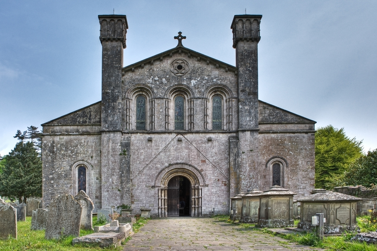 Margam Abbey. Entrance to nave